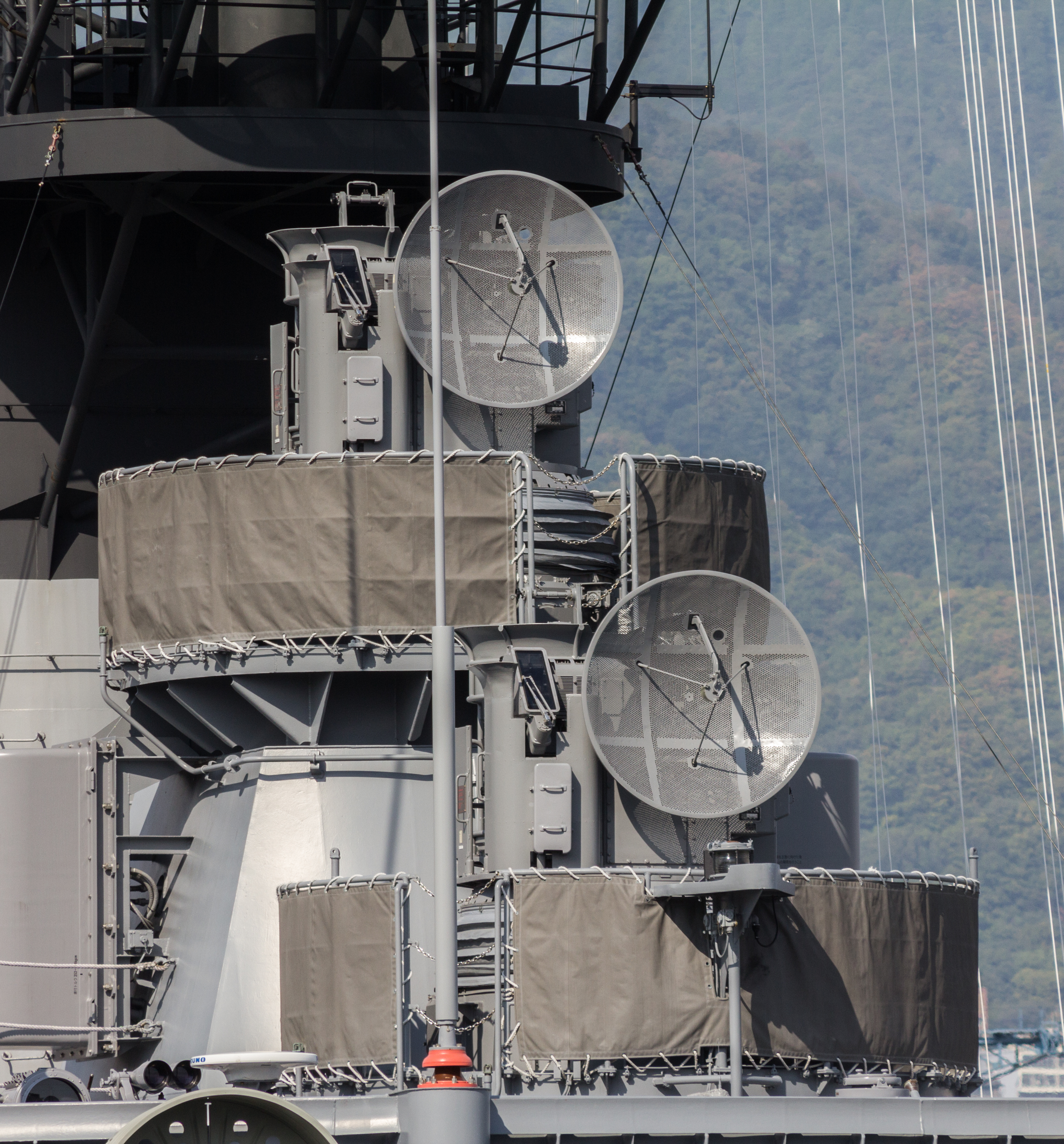 FCS-1A on JDS DDH-144 Kurama at Kobe (2013 Oct 27)